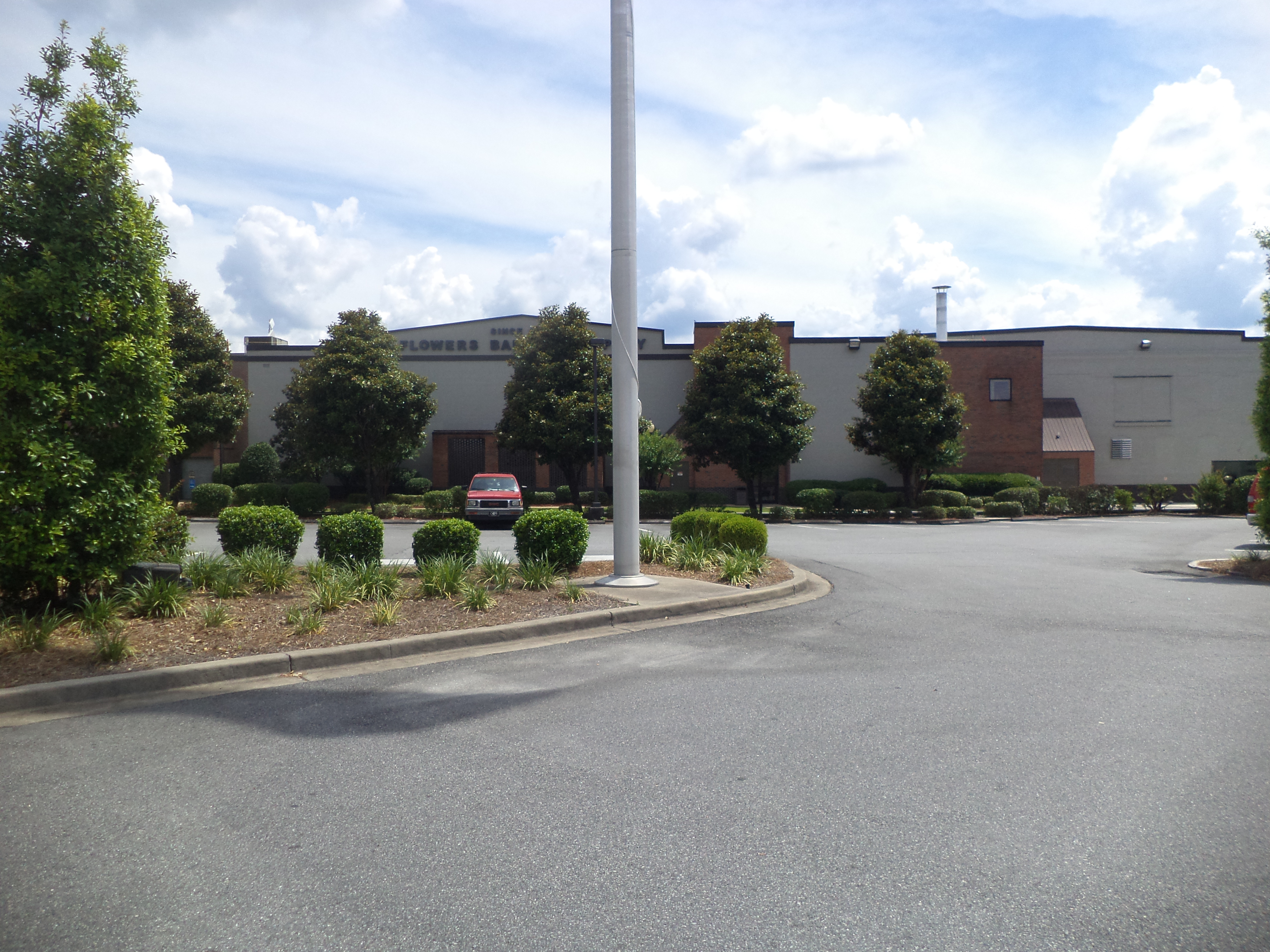 Flowers Baking Company, Thomasville, Thomas County, Georgia